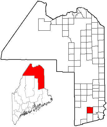 Adapted from U.S. Census Bureau maps (American FactFinder) and Wikipedia's ME county maps by Bumm13.